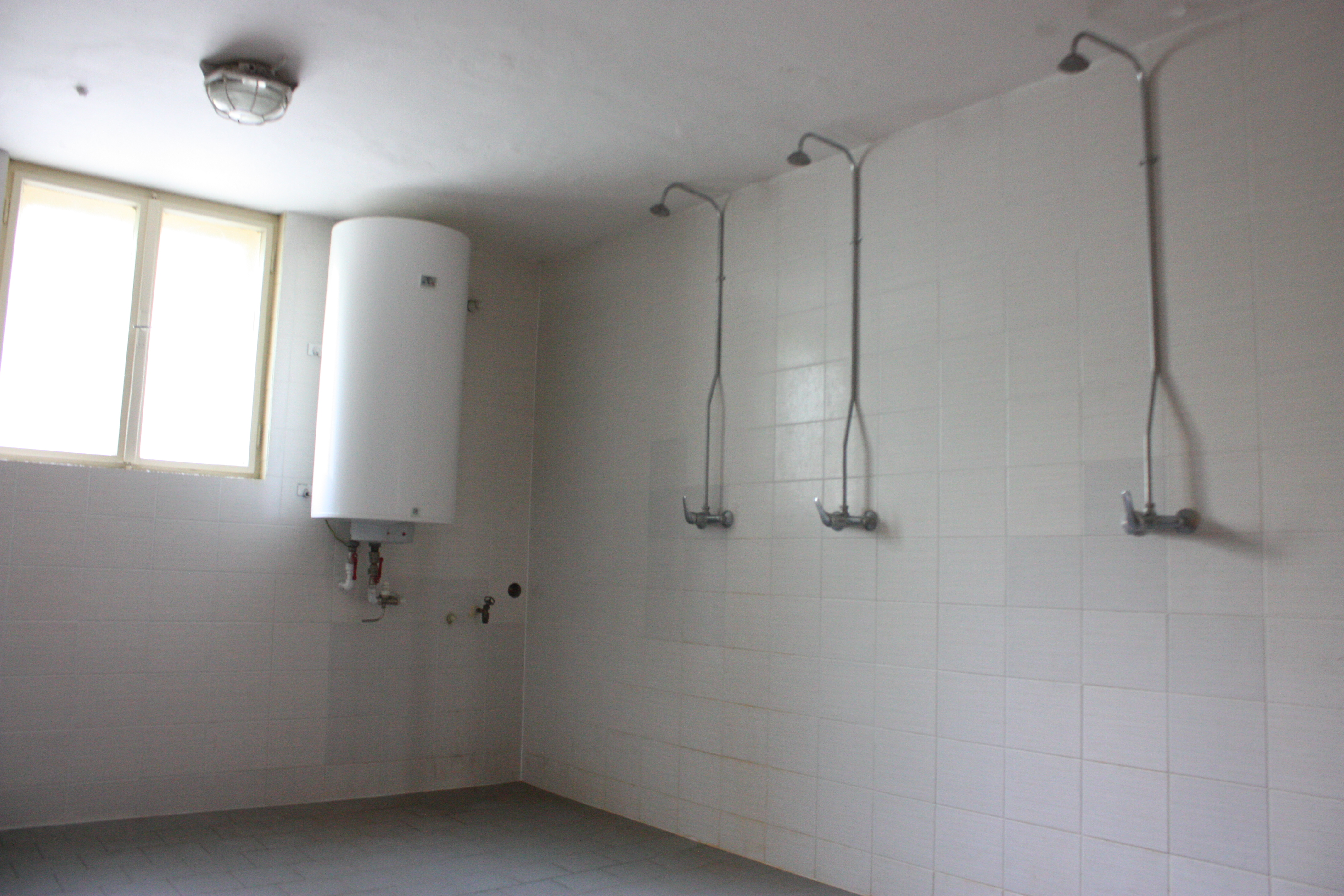 Gymnázium Brno-Řečkovice, shower